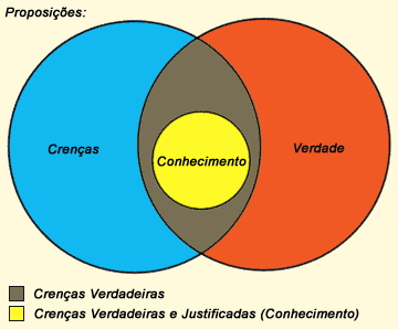 A Venn Diagram simplification of Plato's definition of knowledge. (More precisely, as Gettier himself puts it, Plato first mentions the tripartite definition of knowledge as justified true belief in Theatetus 201, and appears to support it in Meno 98.) The Venn Diagram restricts the domain of knowledge to propositions. This is a restricted, philosophical sense of knowledge (see Epistemology). It recognises that belief and truth is not sufficient for knowledge; that knowledge is a subset of true beliefs. The philosophical problems related to knowledge traditionally resolve around how to understand what differentiates between true beliefs and knowledge. adapted from